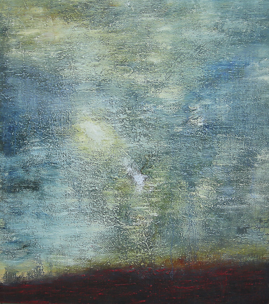 Painting by Adam Shaw